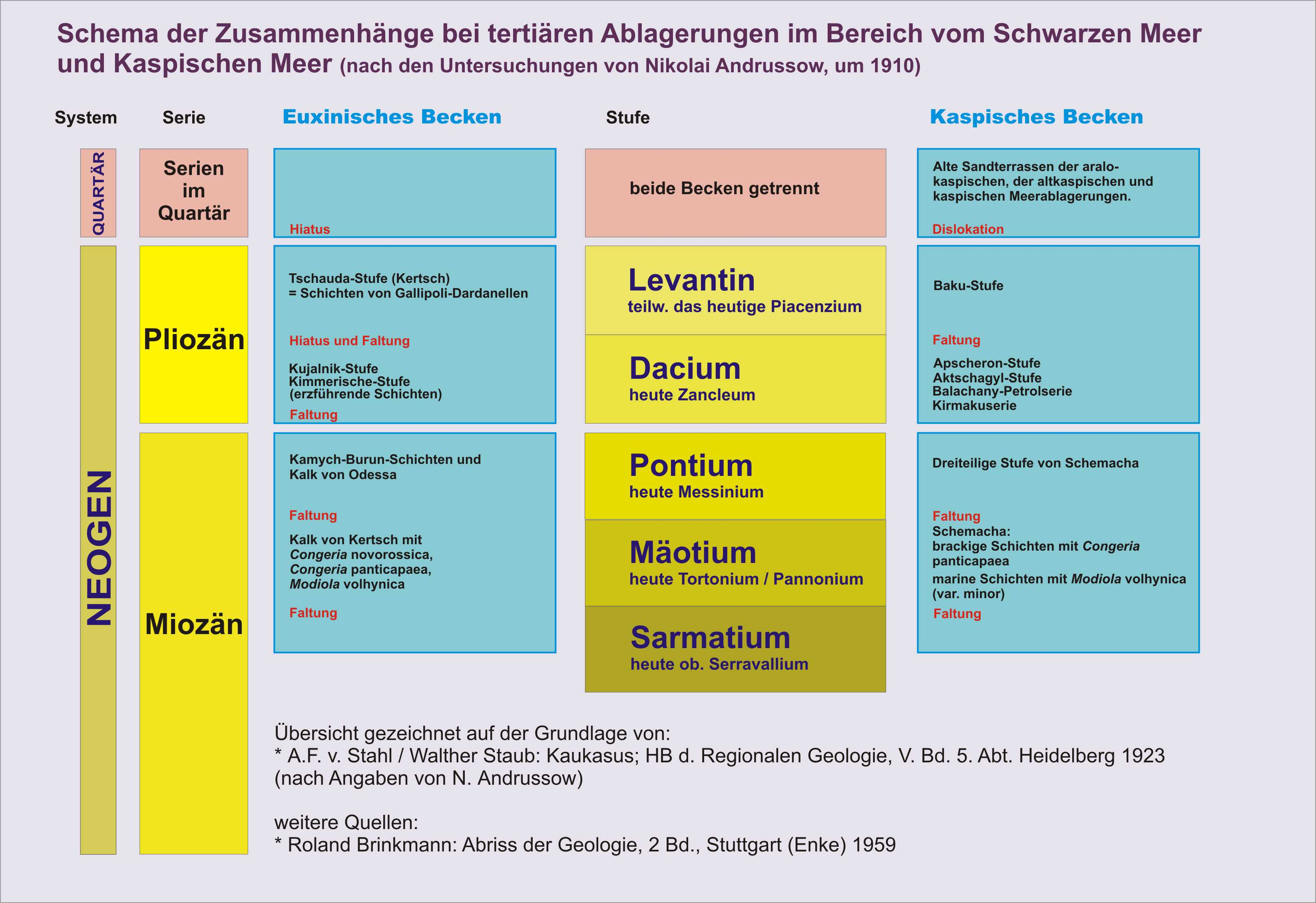 System of neogenic structures by N. Andrusov (approx. 1910)